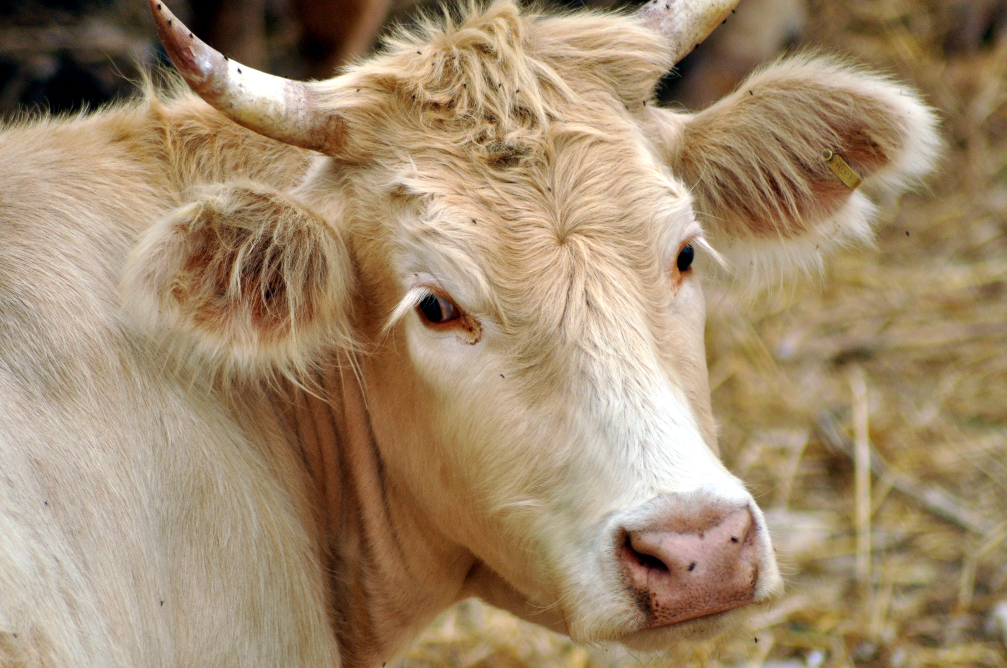 Cow, Agriculture in Israel